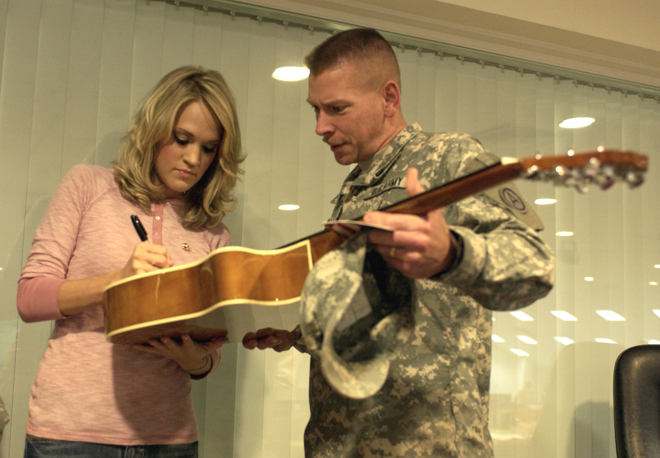 Army Master Sgt. Ricky Bakke, a logistics NCO, holds his 10-year-old daughter’s guitar for country music star Carrie Underwood to sign at Camp Arifjan, Kuwait, Dec. 13.